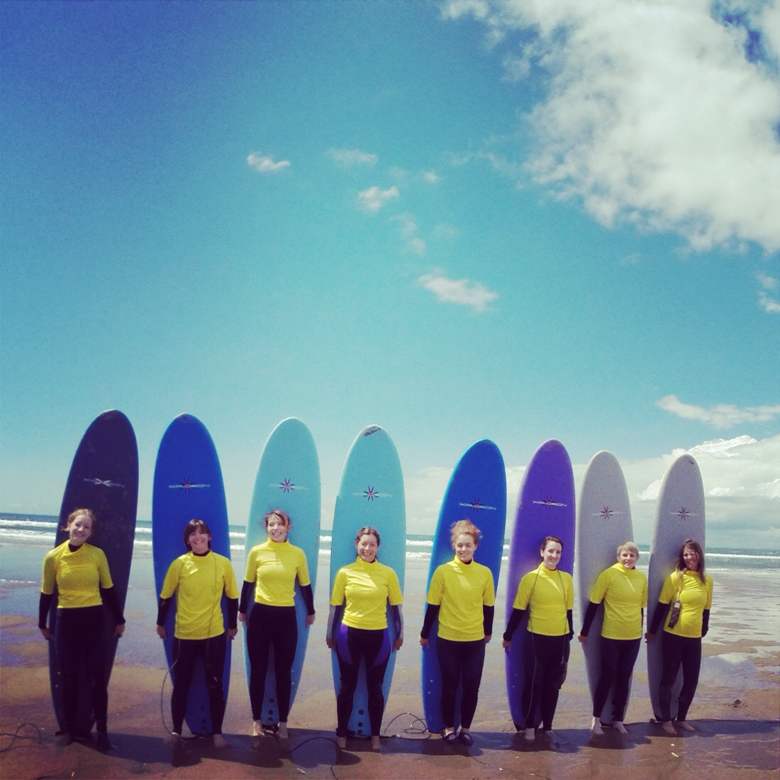 Eight surfers Llangennith in Gower, Wales, with Rip N Rock adventures using surfboards that are around 240 cm (8 ft).